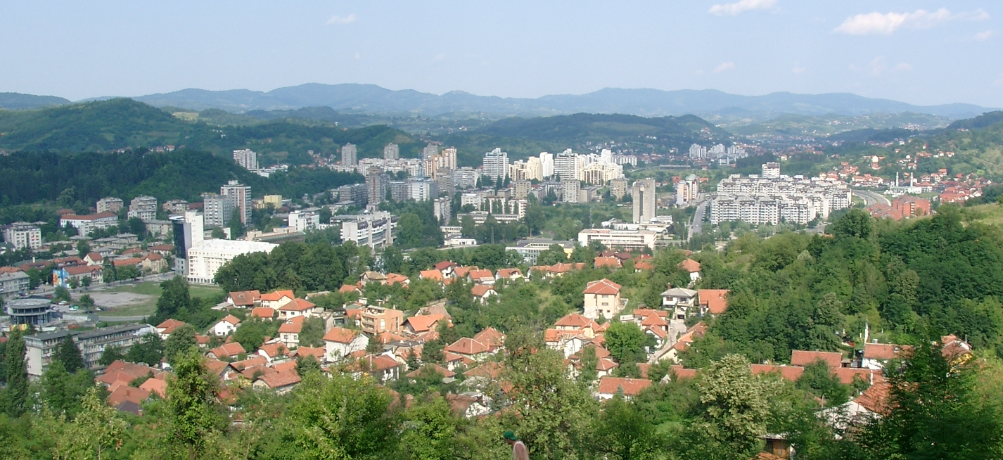 View of Tuzla